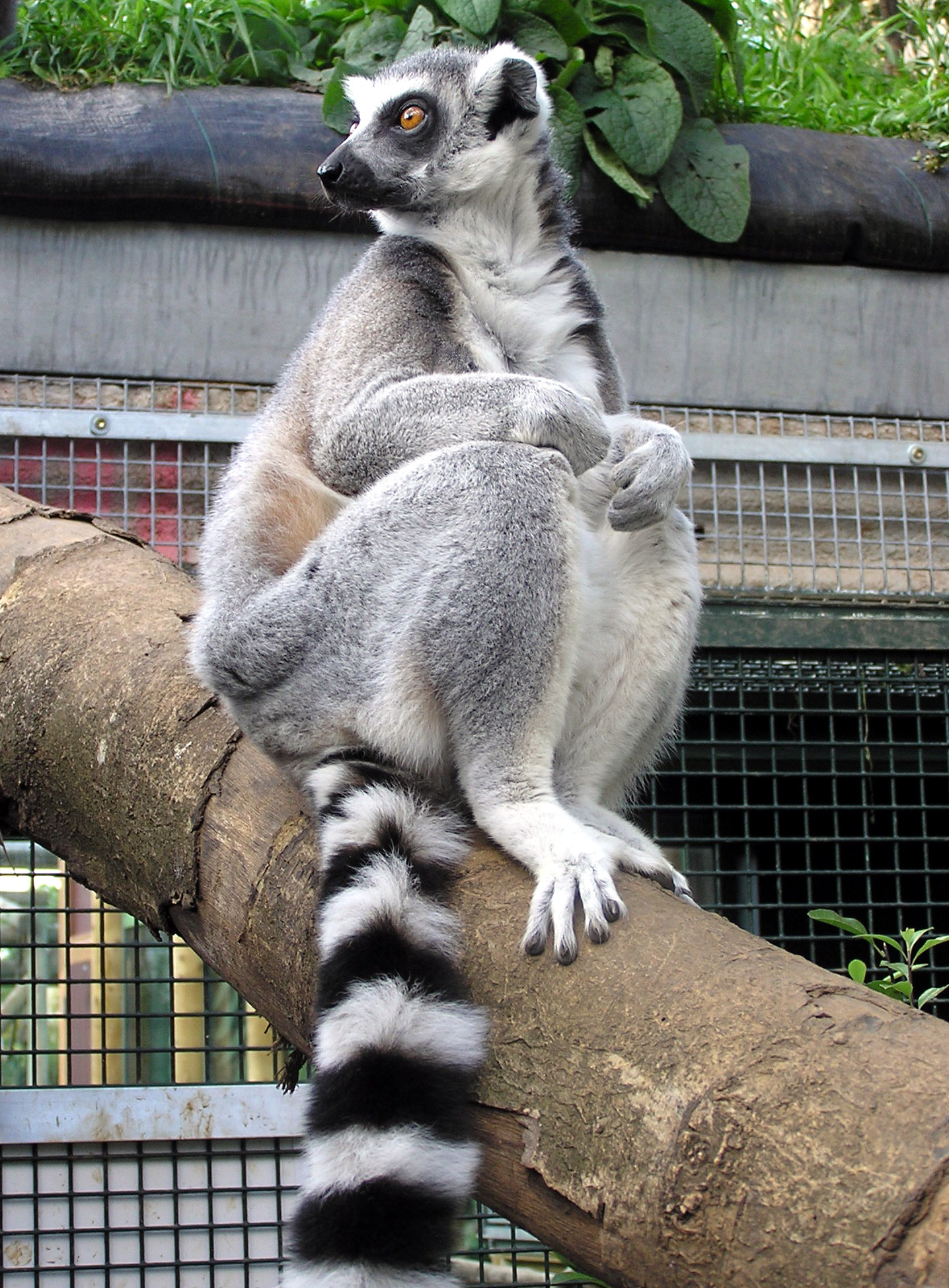 Ring Tailed Lemur Lemur catta at Bristol Zoo, Bristol, England.